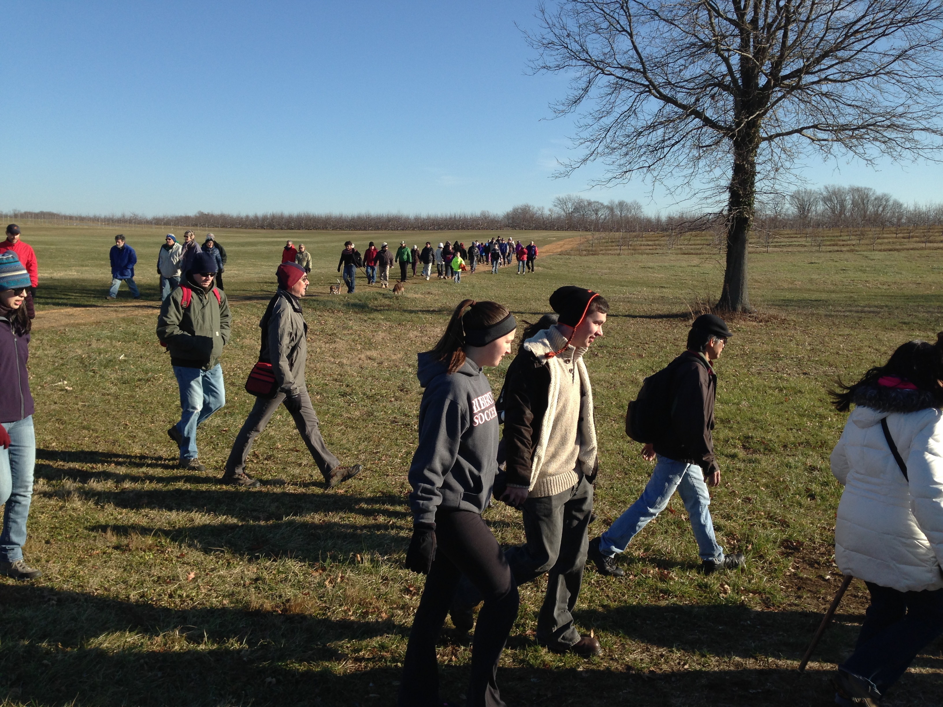 Some of the ~70 participants in a First Day Hike at Monmouth Battlefield State Park in Freehold, New Jersey in 2015. Here making a turn after walking across much of an open field past where the orchards are.